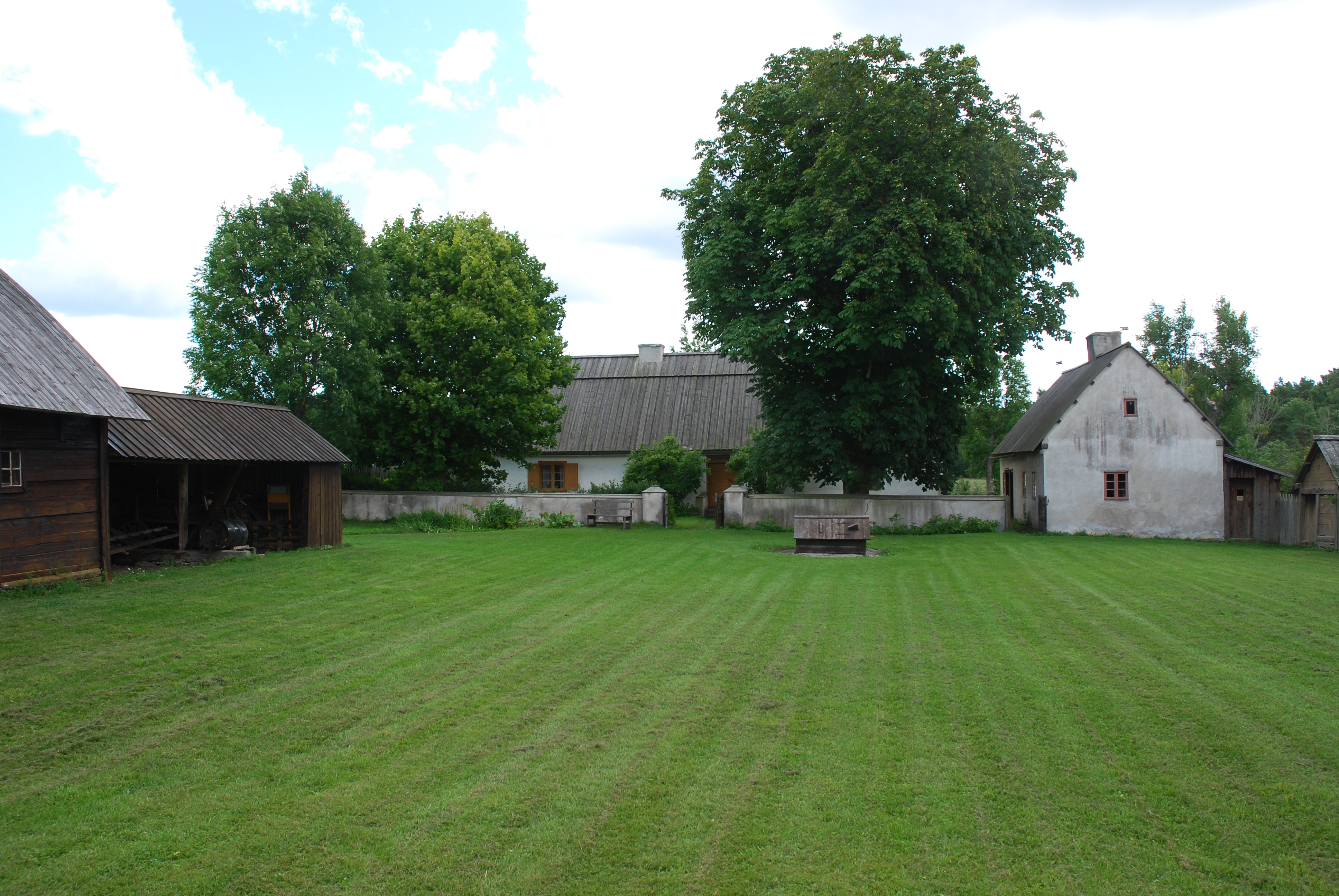 Vike Memorial Farm, Gotland, living quartersUnknown